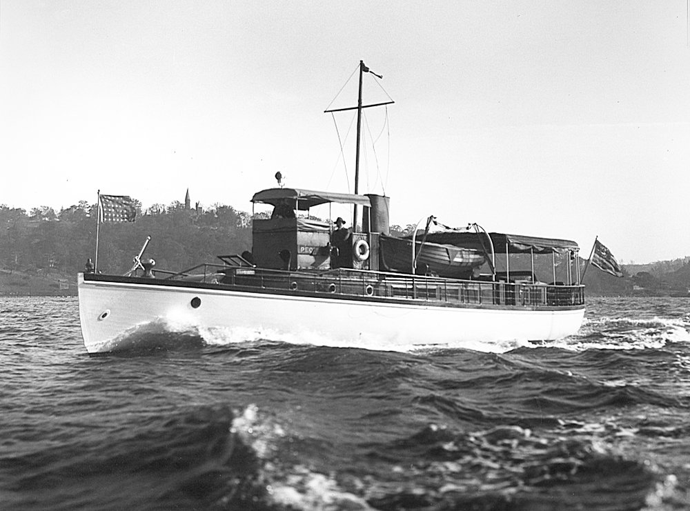 The private motorboat Pequest after her United States Navy service as the patrol vessel